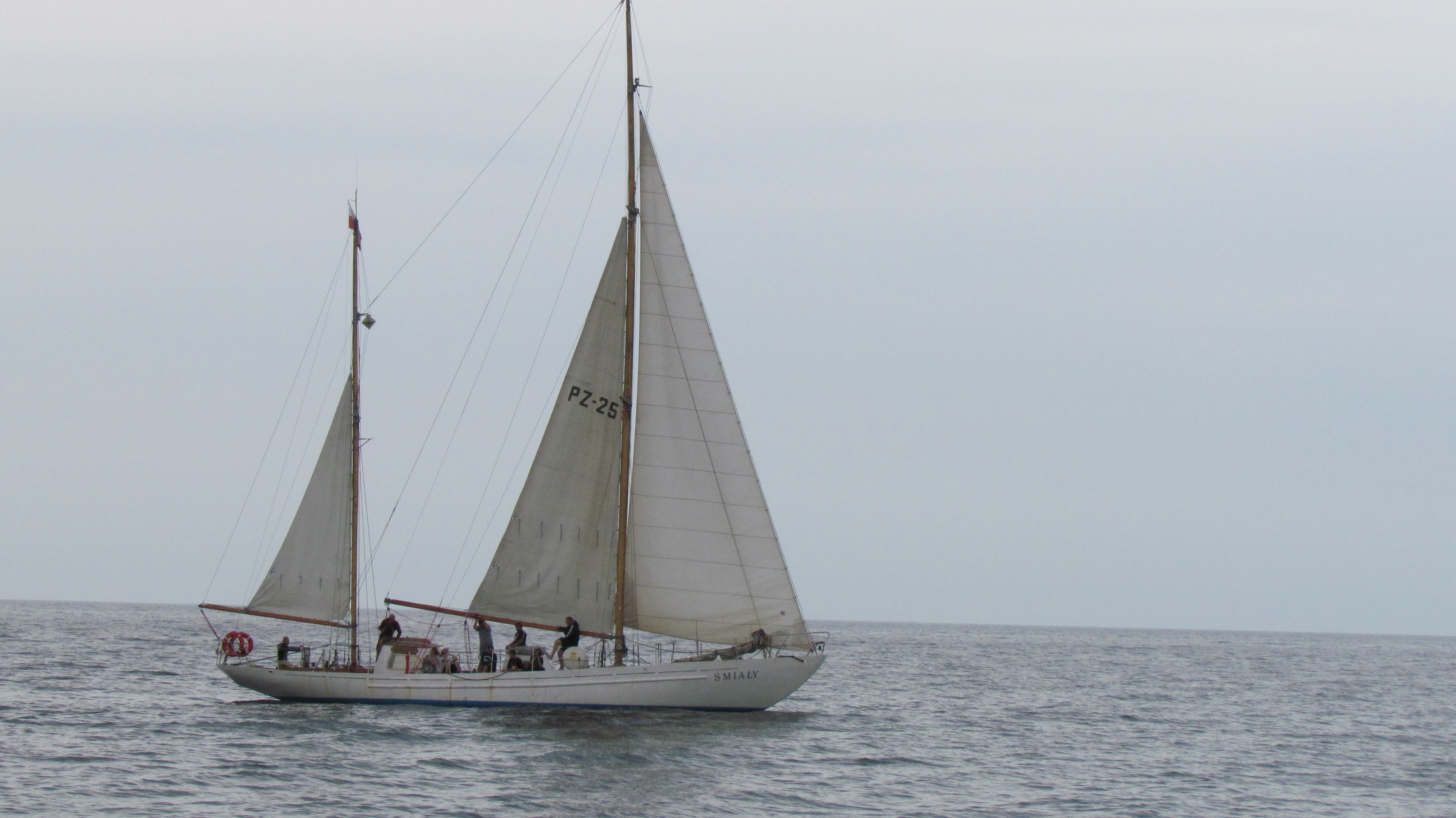 s/y Śmiały seen from sister ship s/y Tara